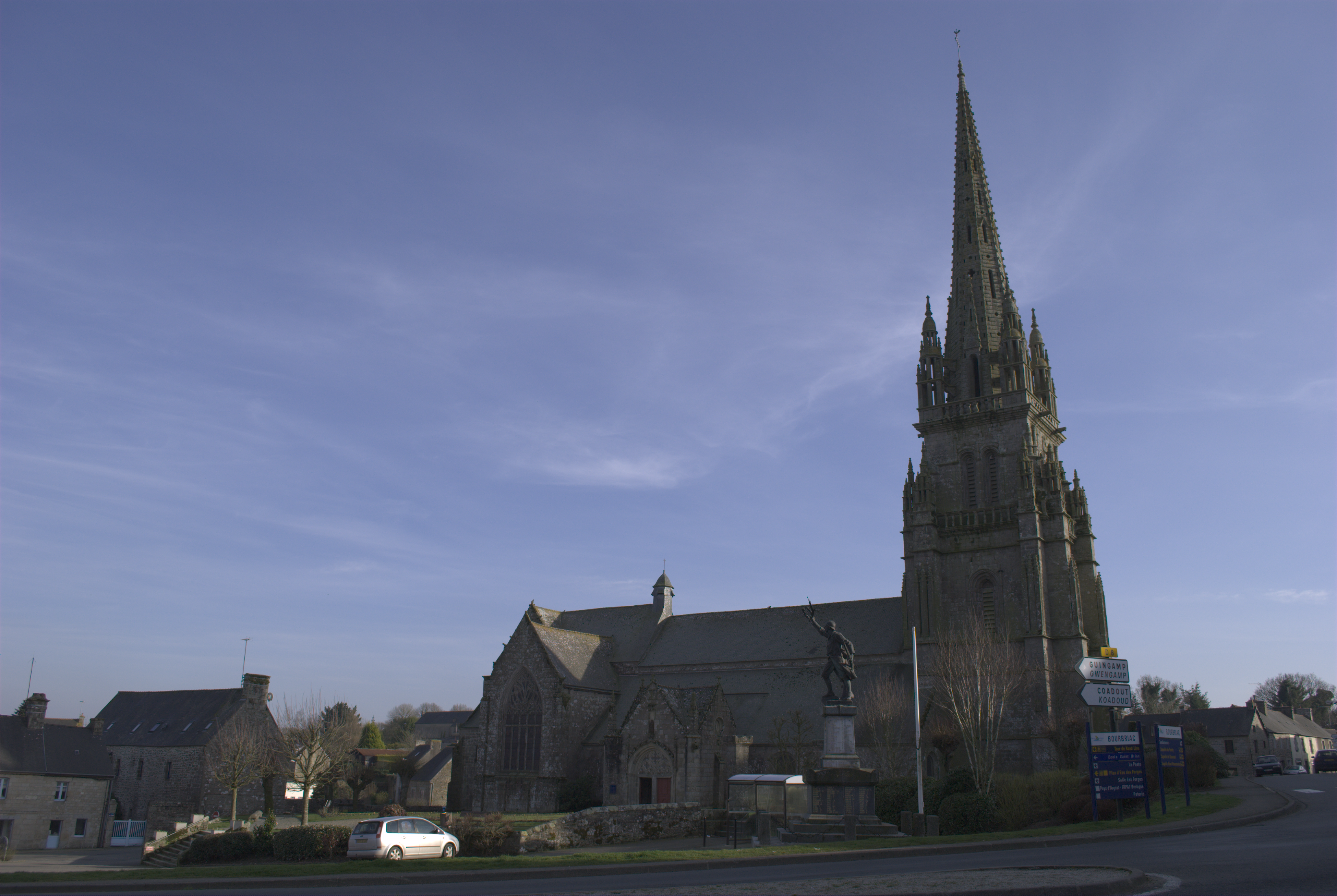 Church of Saint-Briac in the village of Bourbriac (France).